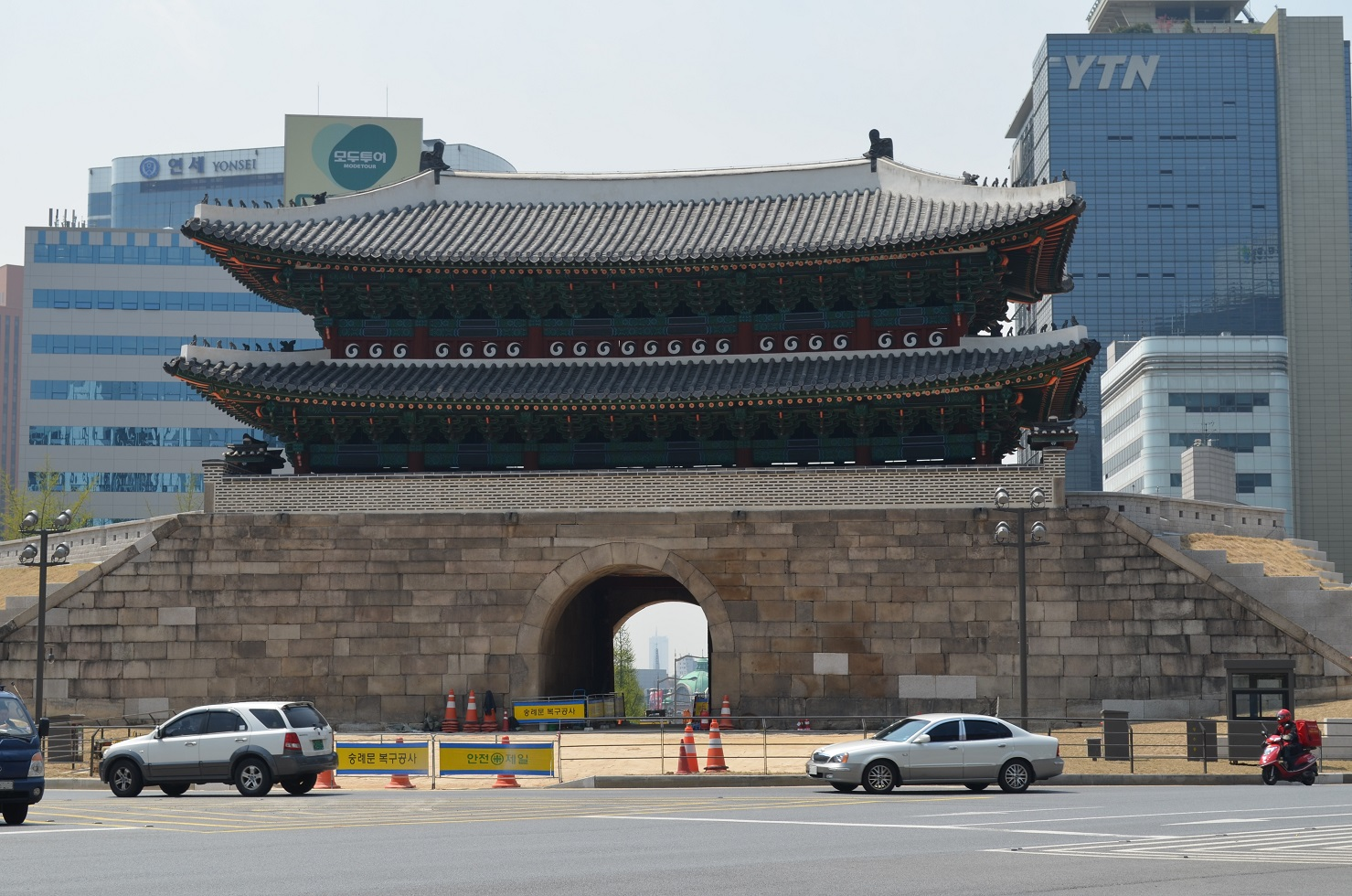 Sungnyemun Gate, also known as Namdaemun Gate or South Gate, Seoul, South Korea. Photographed April 27, 2013.